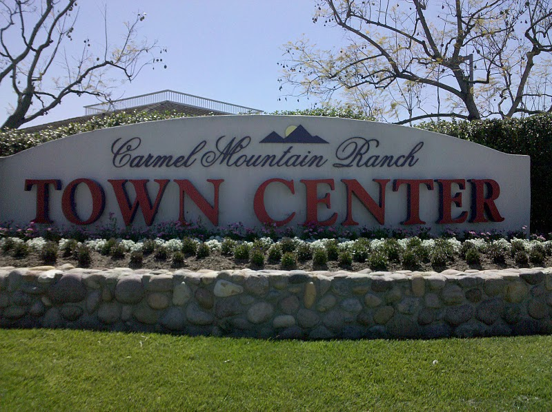 Carmel Mountain Ranch Town Center